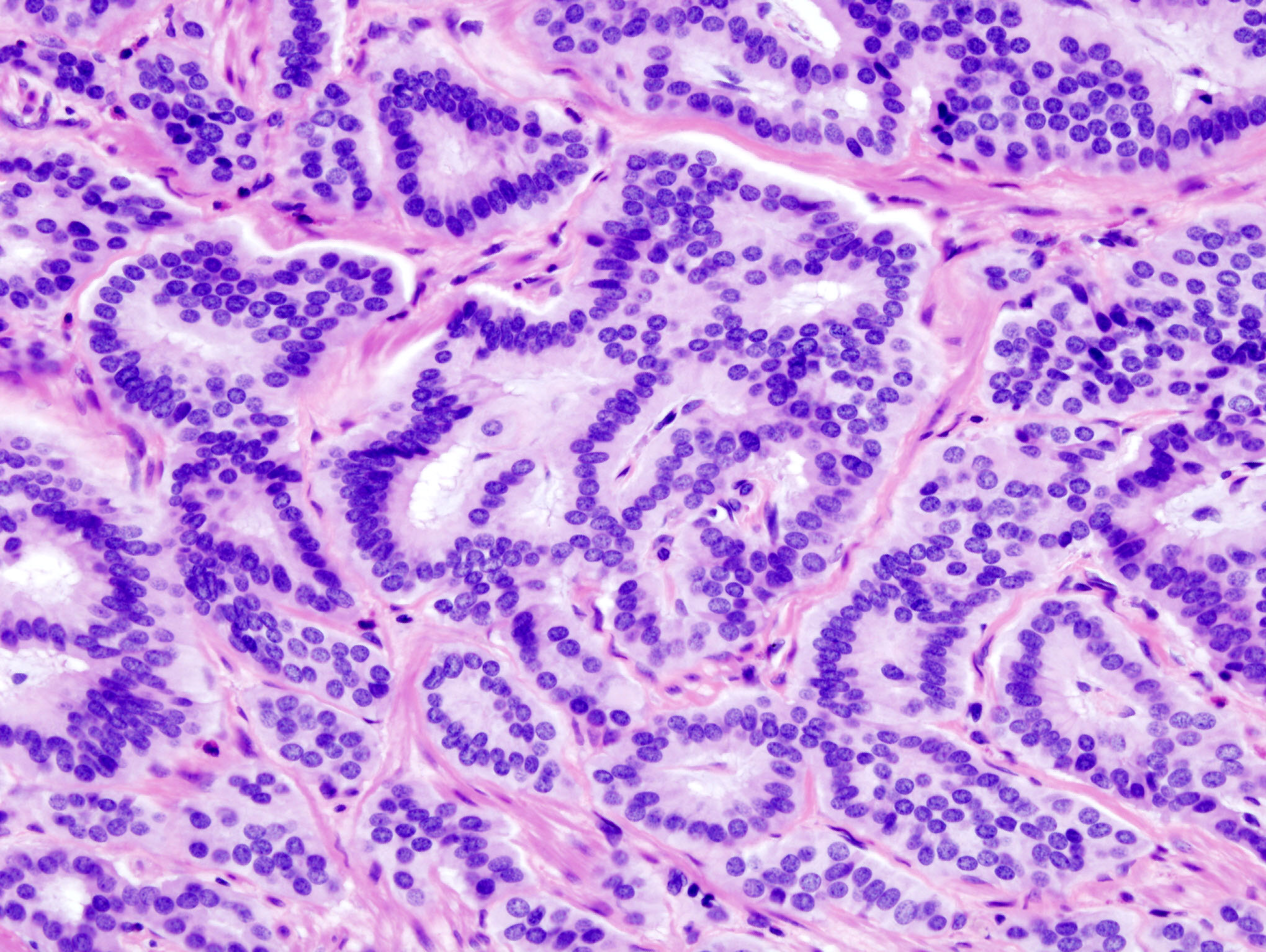 Histopathologic image of colonic carcinoid stained by hematoxylin and eosin. Other version: Colonic_carcinoid_(1)_Endoscopic_resection.jpg.